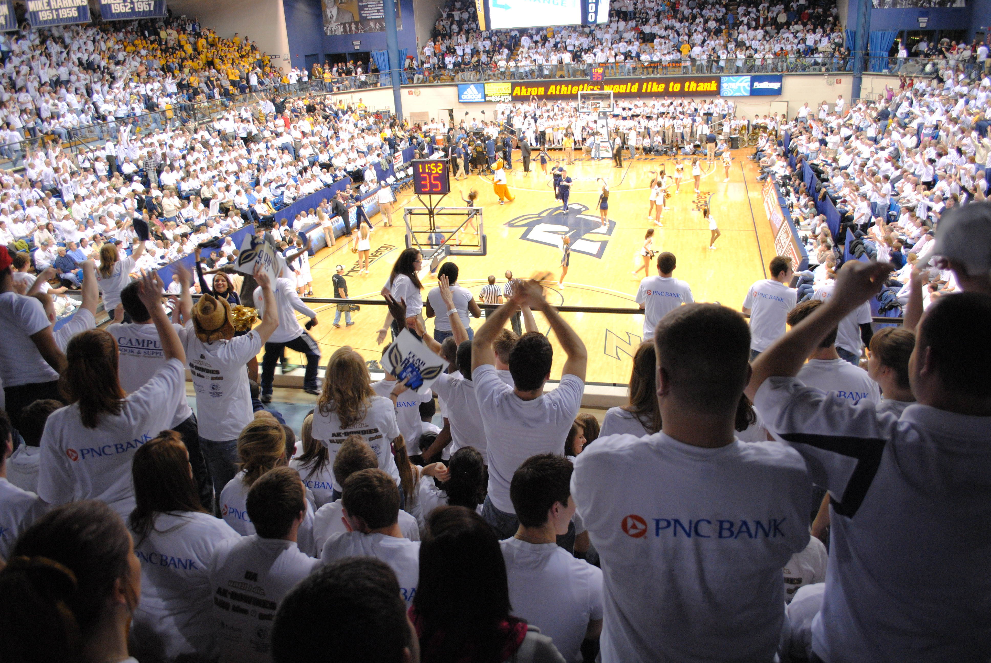 Interior of the James A. Rhodes Arena in Akron, Ohio on the campus of the University of Akron for a game between the Akron Zips and Kent State Golden Flashes. Photo by Kate Sheets.